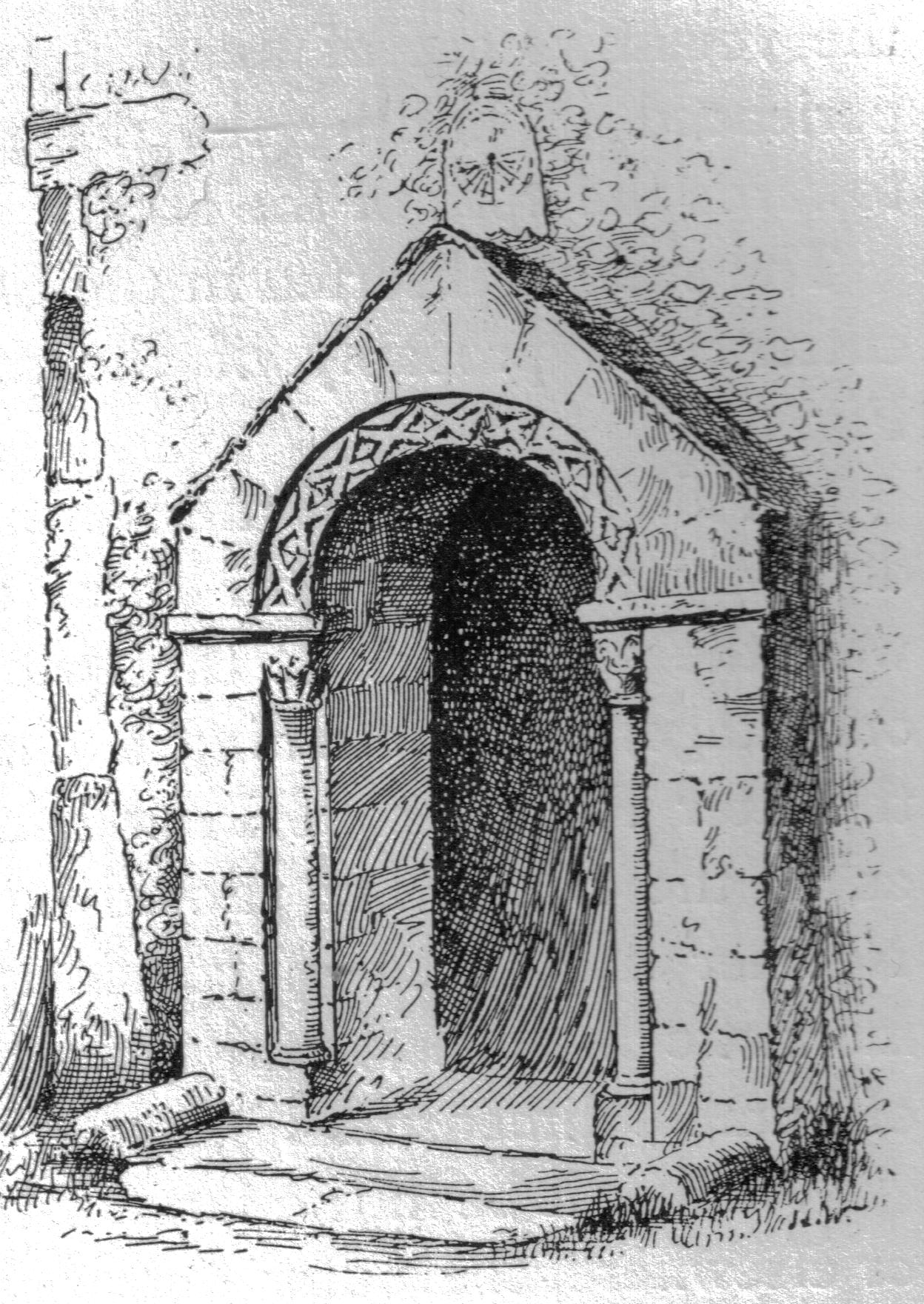 Church of England parish church of St Andrew, Bishopstone, East Sussex: Mass dial and Norman porch.